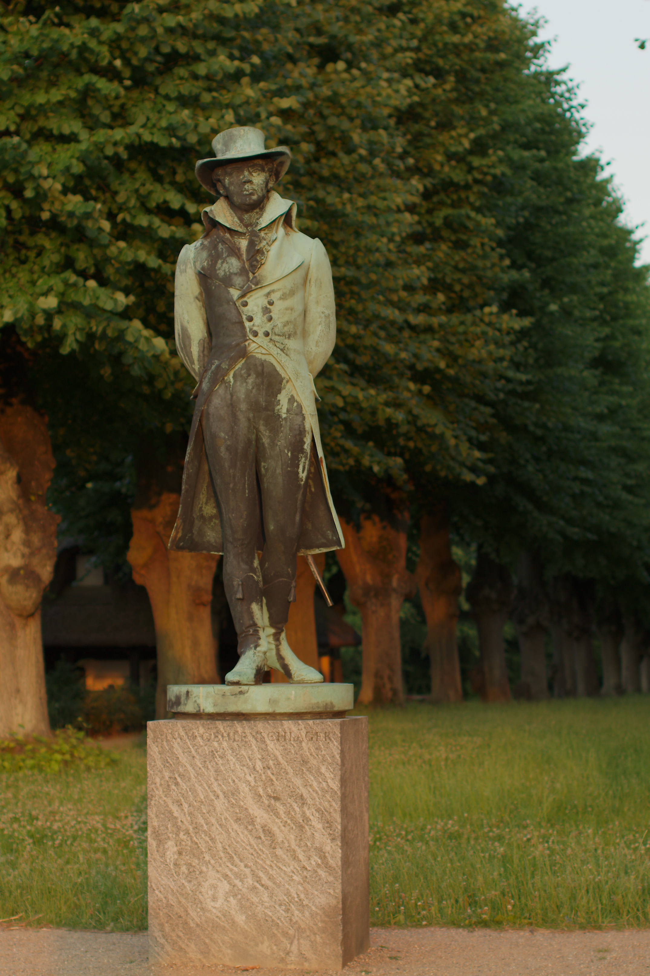 Adam Gottlob Oehlenschlager by Julius Schultz in Søndermarken (July 2013) - cropped version